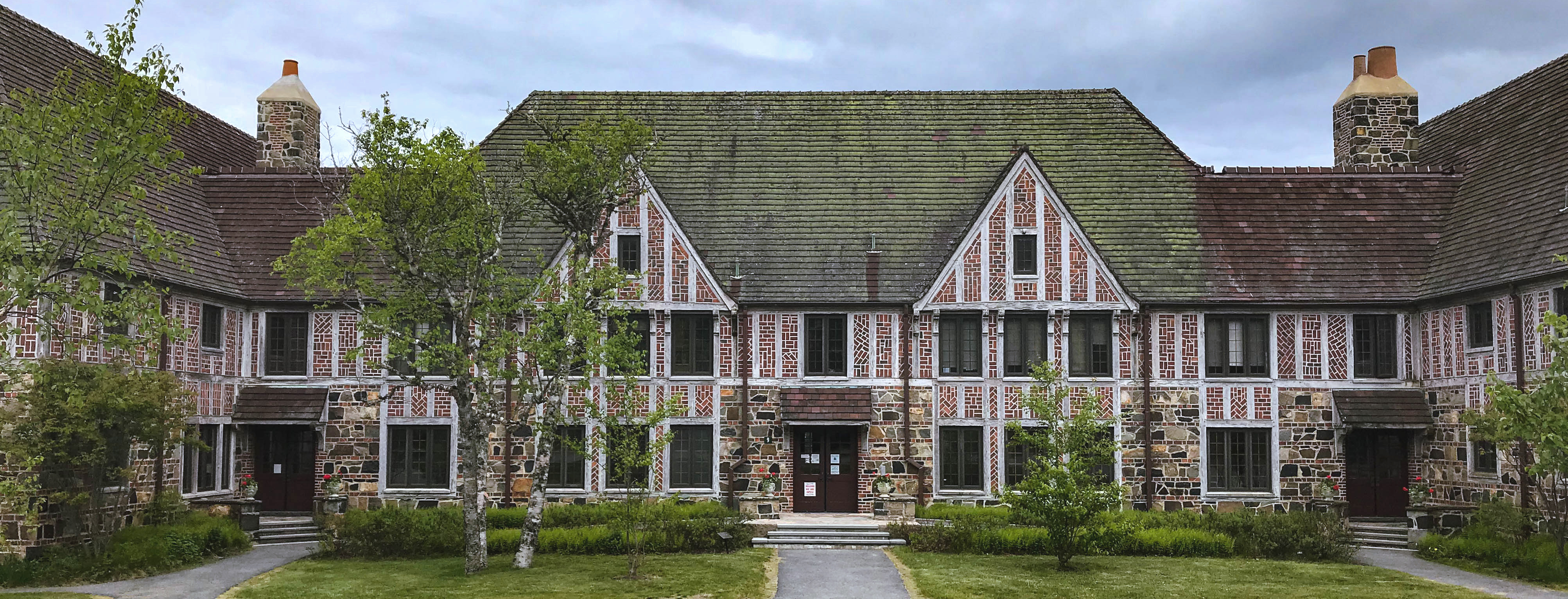 Schoodic Education and Research Center on the Schoodic Peninsula, Acadia National Park, Maine, United States